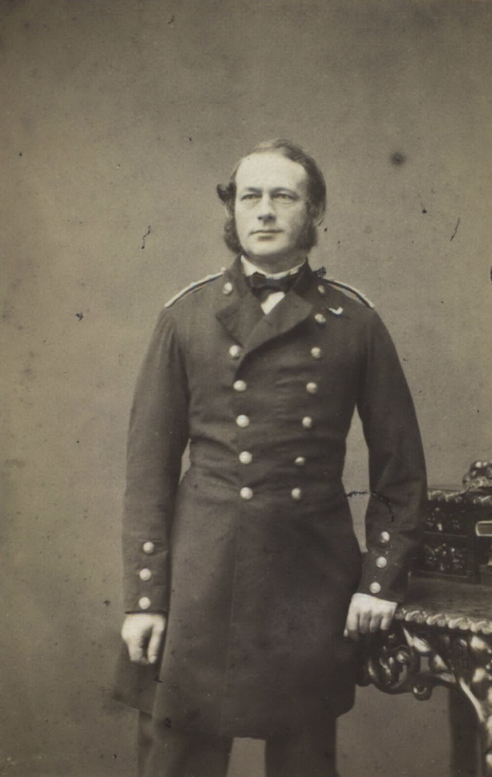 Friedrich Ernst August Emil Lund (1823-1907), Danish Rear Admiral